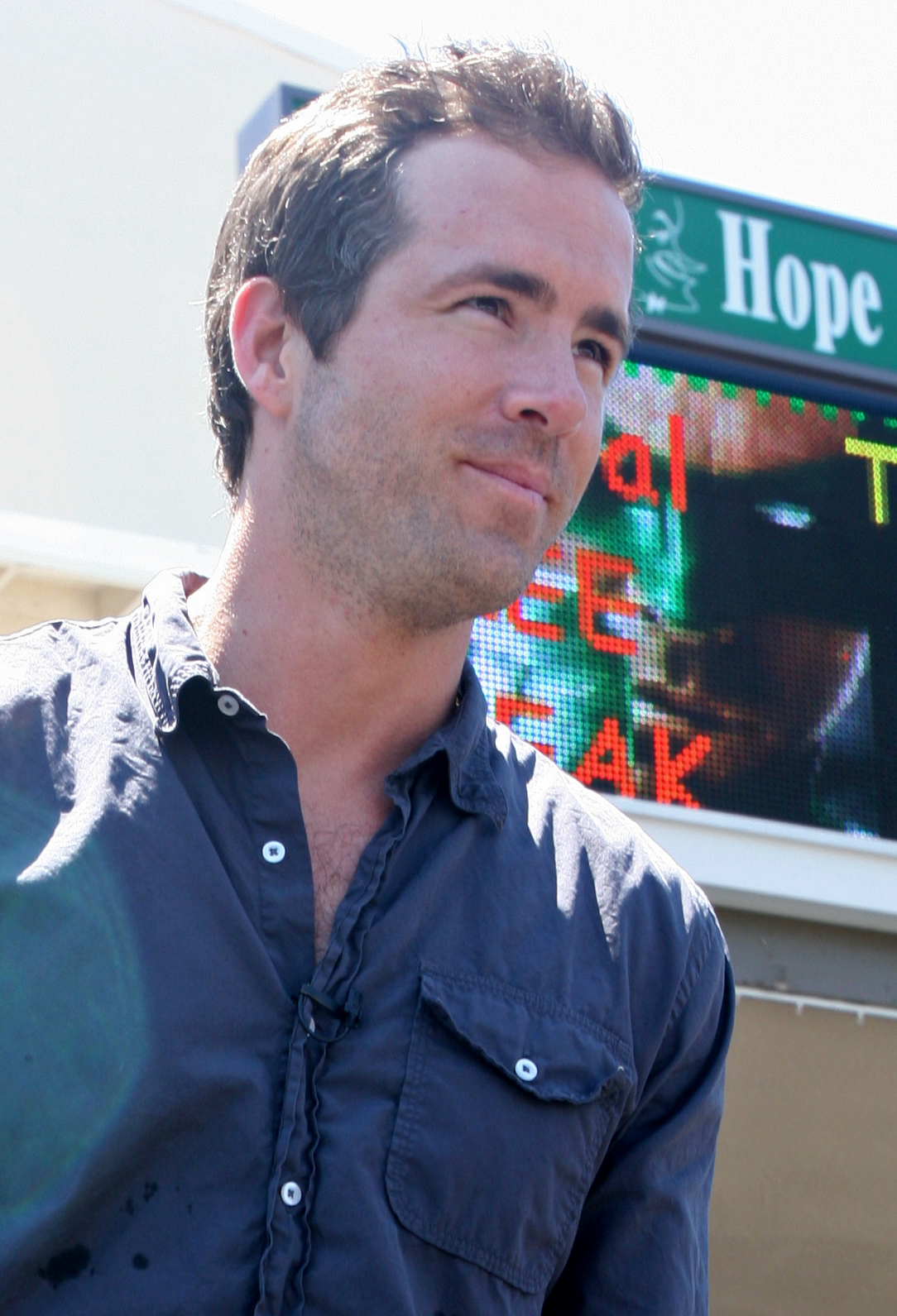 Ryan Reynolds poses for a photo during the screening of his upcoming movie, "Green Lantern," at the Bob Hope Theater aboard Marine Corps Air Station Miramar, Calif., June 16. Reynolds also met with Marines and sailors at the Veterans of Foreign Wars annual barbecue while visiting the air station.